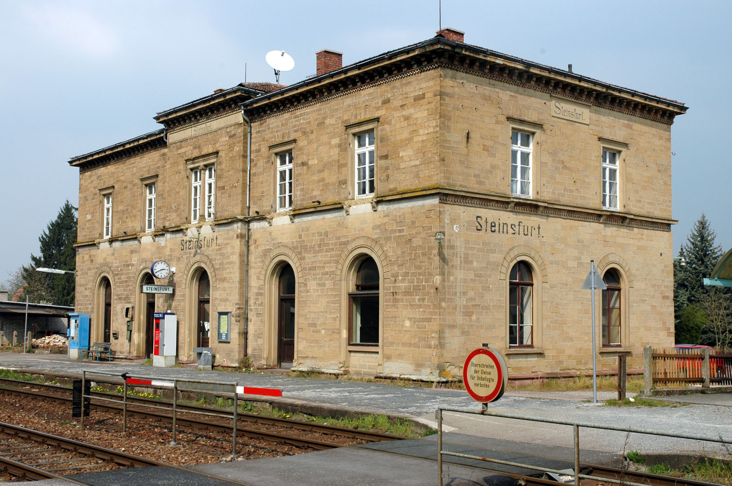 train station of Steinsfurt.